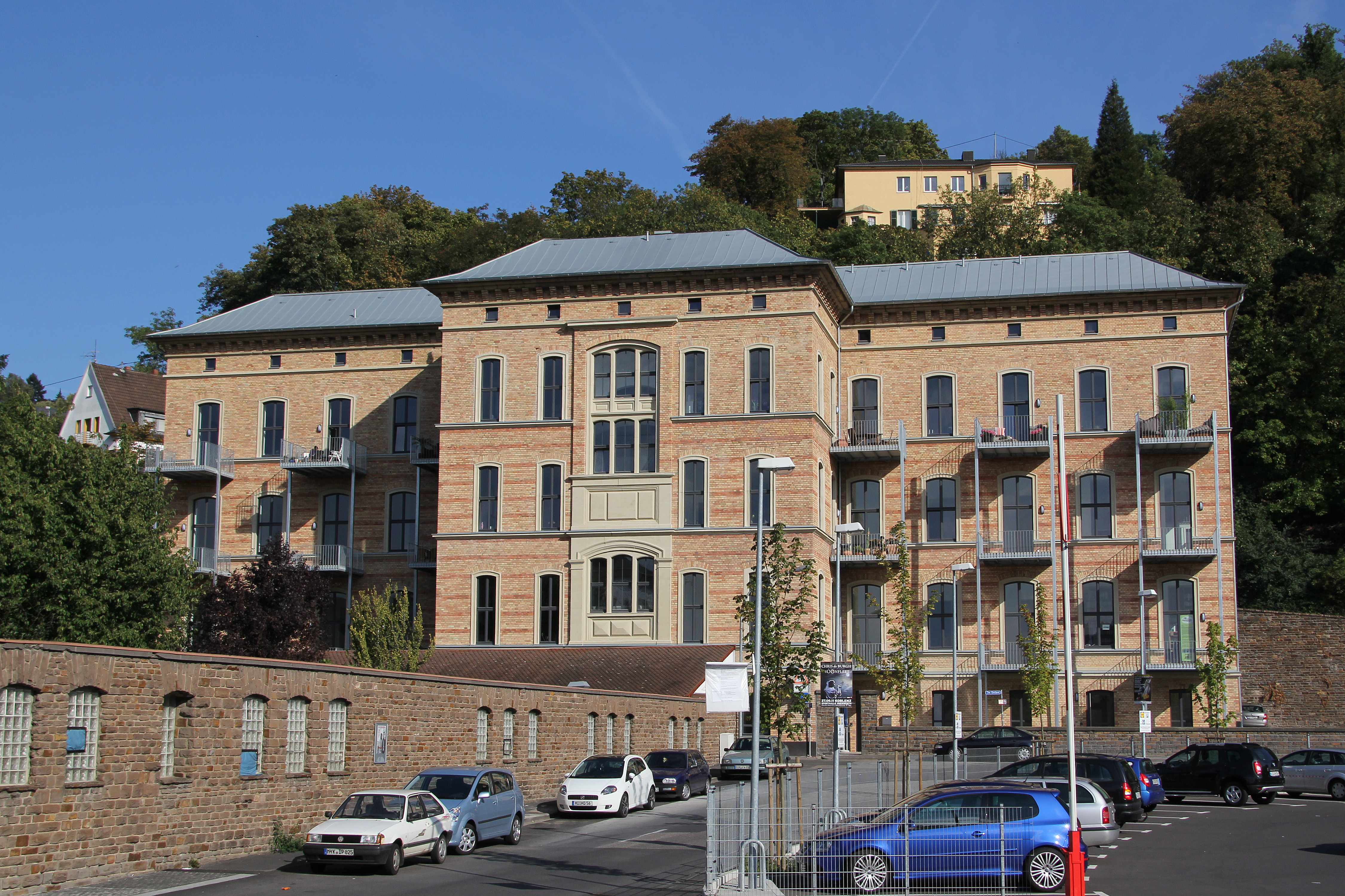 Martin-Gropius-Bau in Koblenz